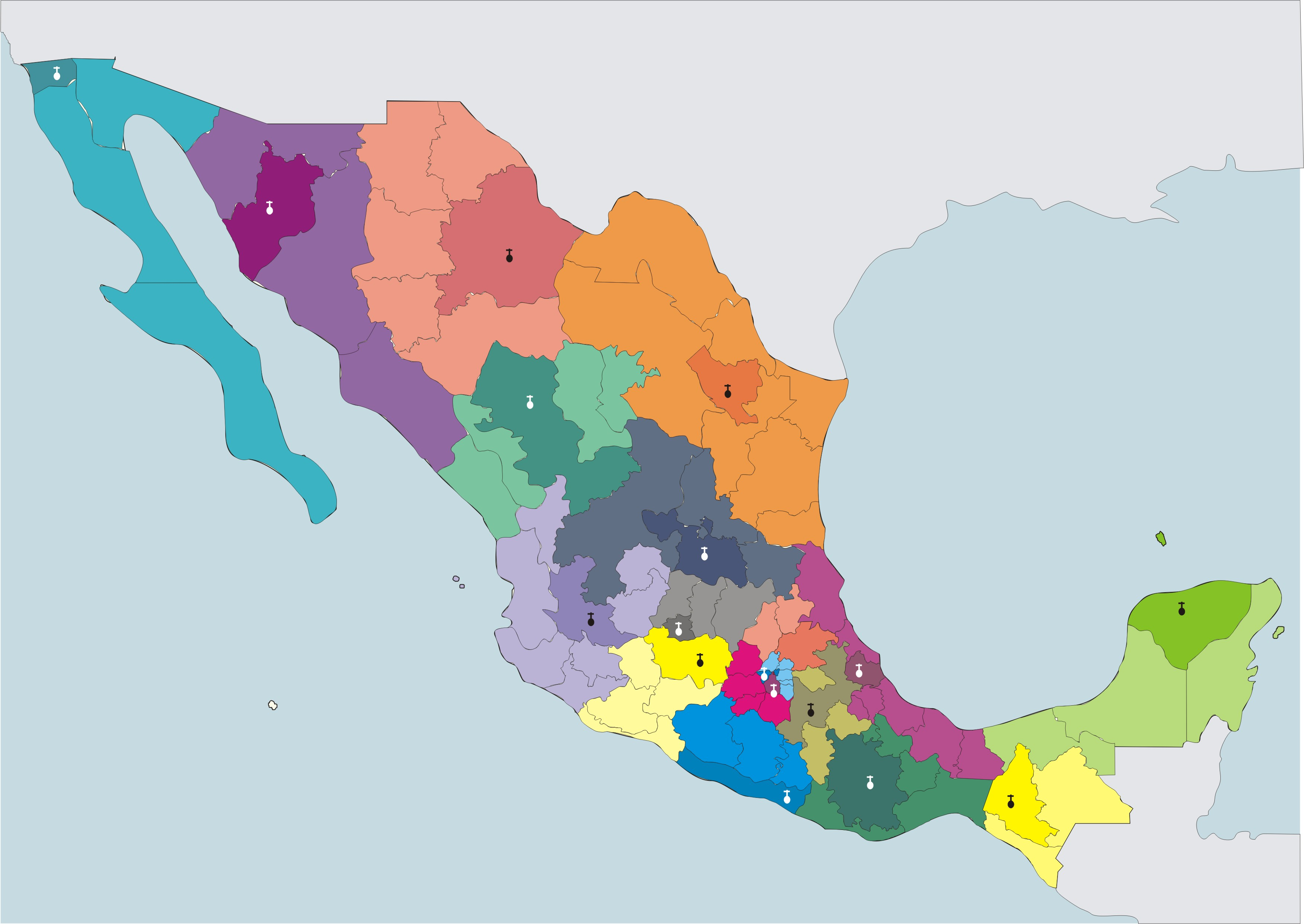 Map of the eclesiastical provinces in Mexico